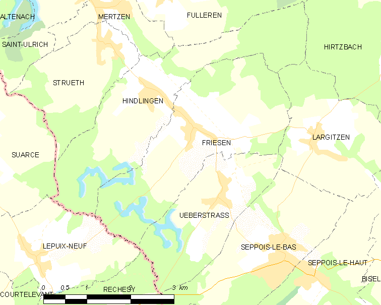 Map of French municipality